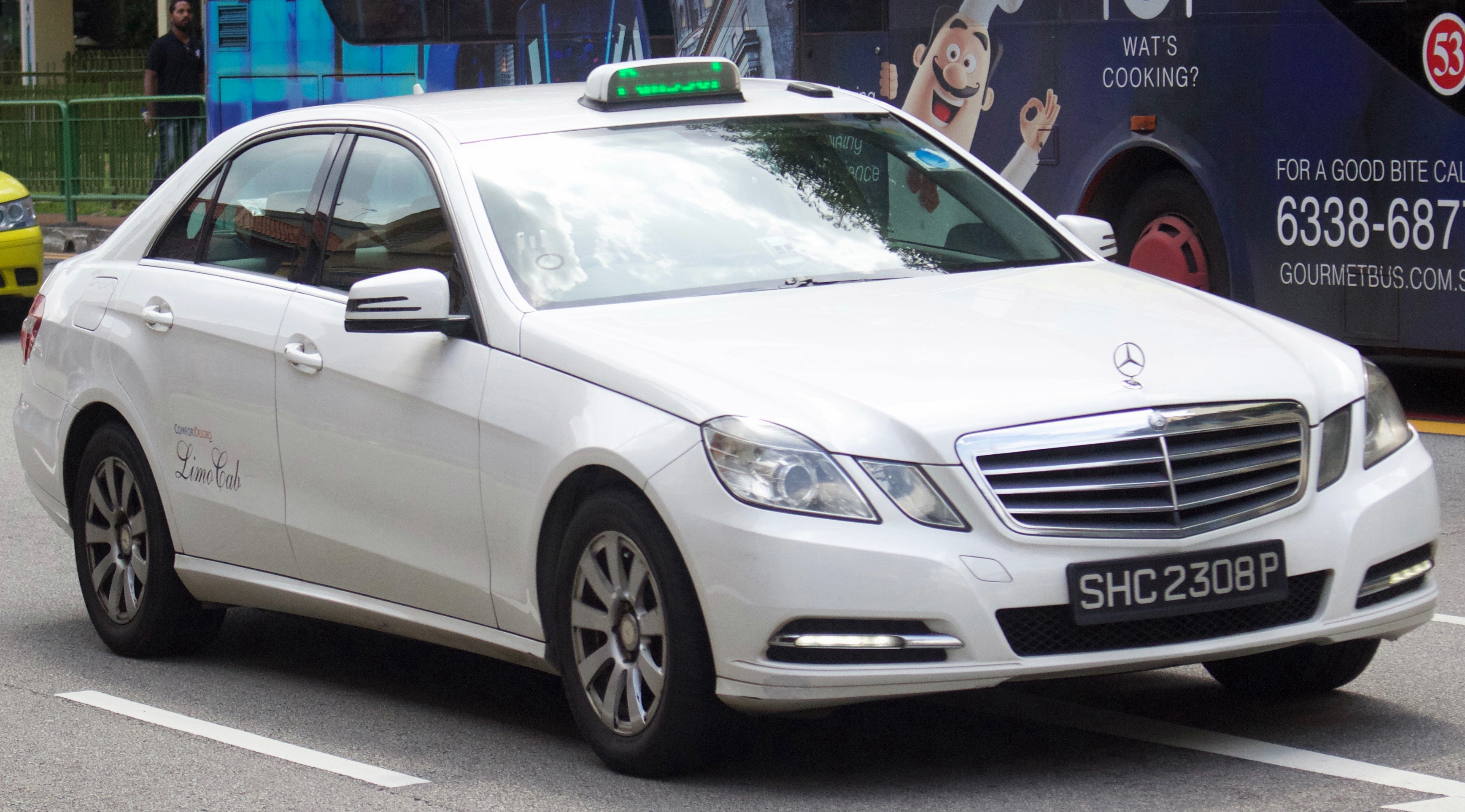 2009-2012 Mercedes-Benz E 220 CDI (W 212) sedan, ComfortDelgro LimoCab. Photographed in Singapore.